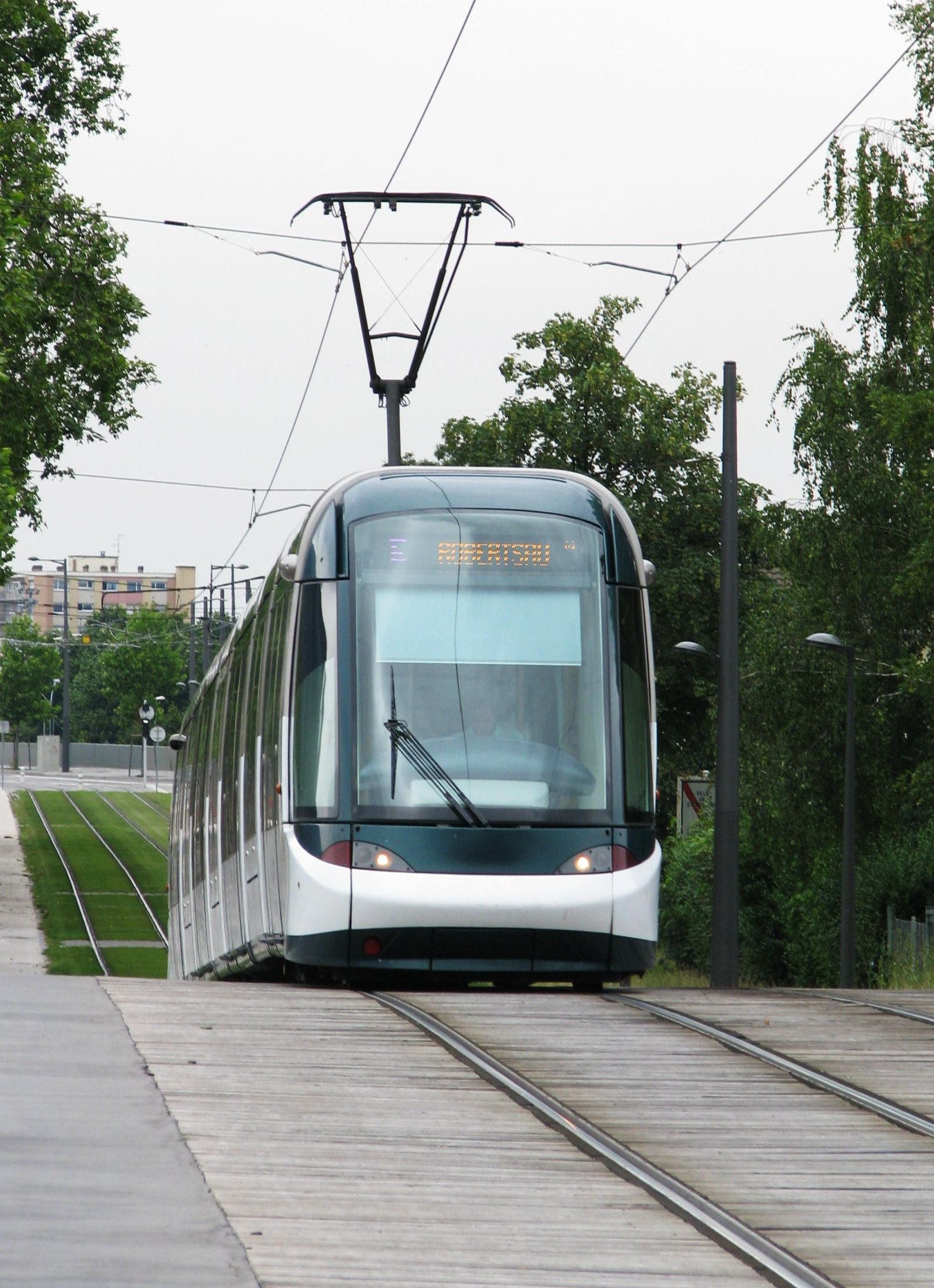 Tramways in Strasbourg